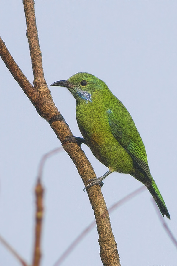 The species Orange-bellied Leafbird had been photographed at Pangolakha Wildlife Sanctuary during the birding trip of GoingWild in East Sikkim, Sikkim, India on 13.12.2015.